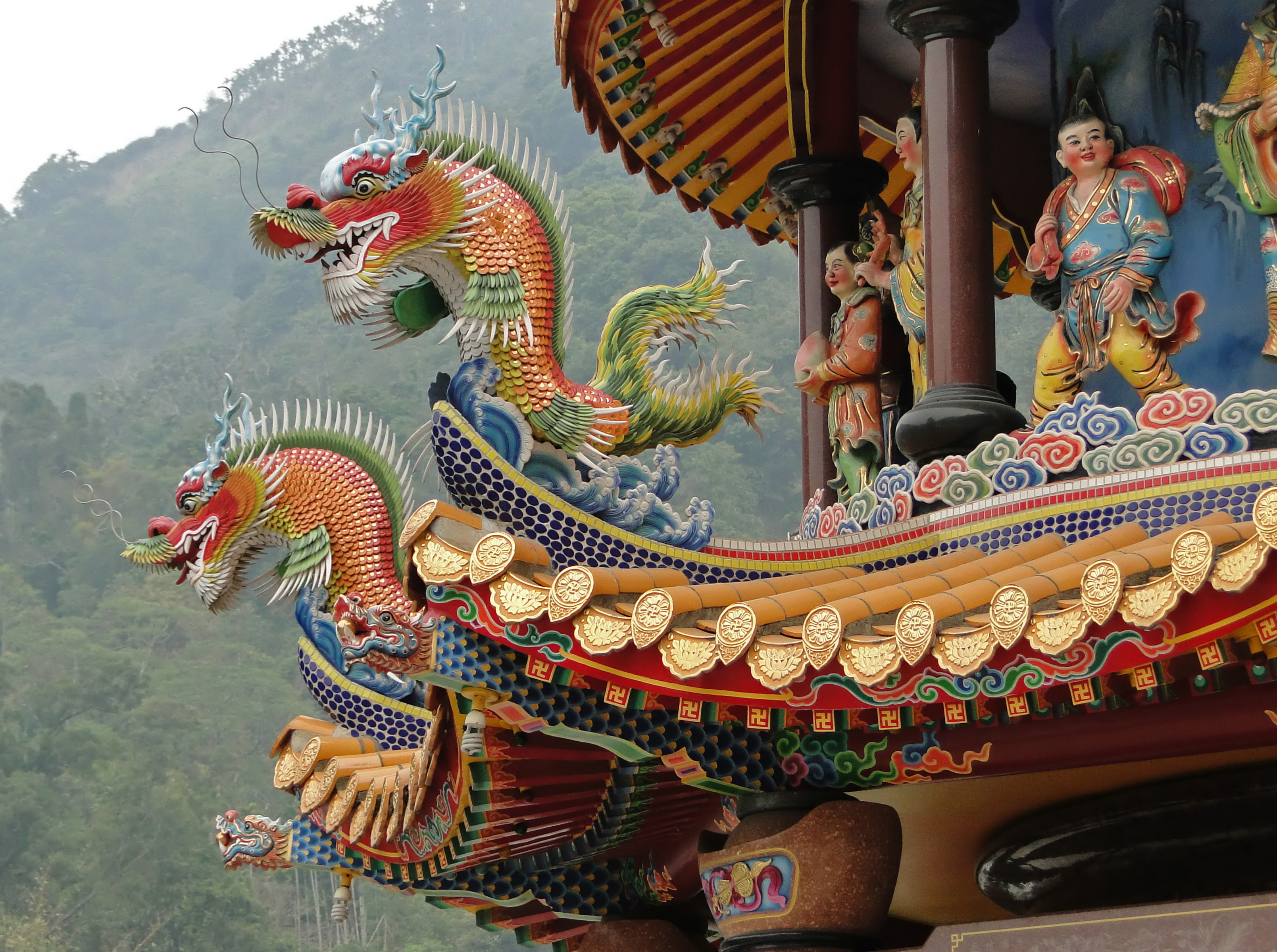 Chinese dragons at LongyinTemple in Chukou, Taiwan